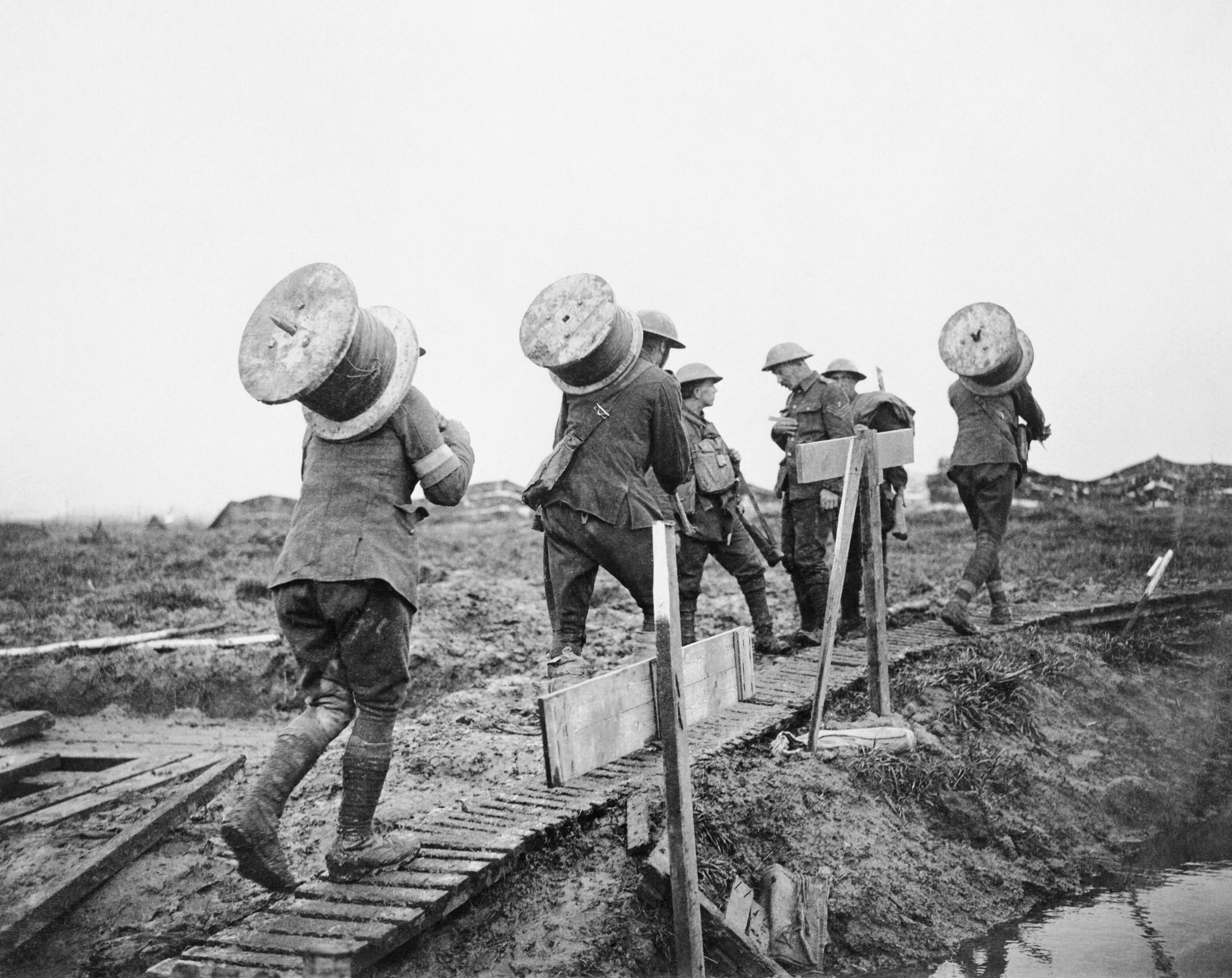 The Battle of Passchendaele, July-november 1917 Battle of Poelcappelle. Royal Engineers taking drums of telephone wire along a duckboard path up to the front between Pilckem and Langemarck, 10 October 1917.